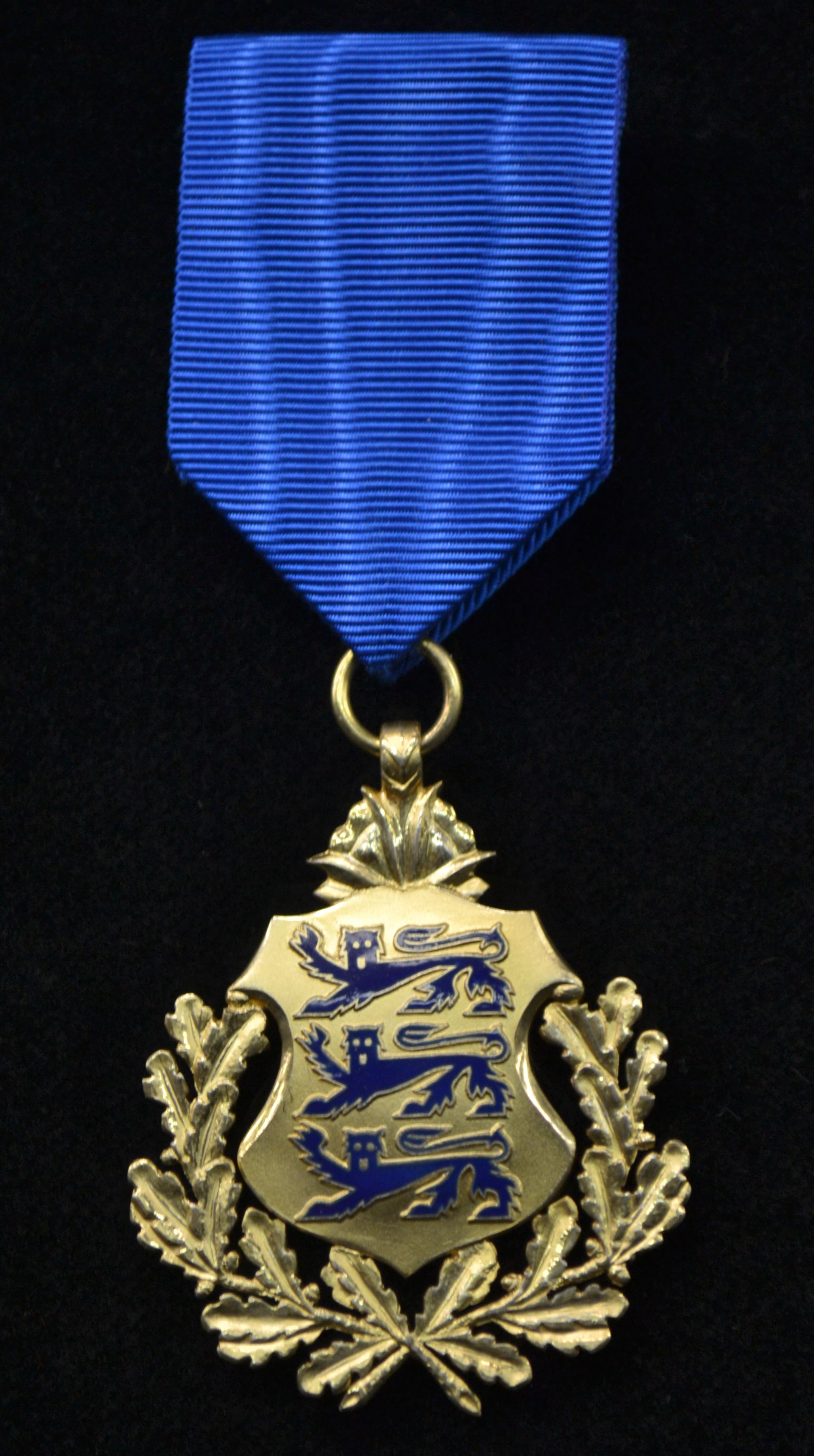 Estonia. Order of the National Coat of Arms 5th class, badge and ribbon. The exhibition of the Estonian State Decorations at the National Library of Estonia in Tallinn.